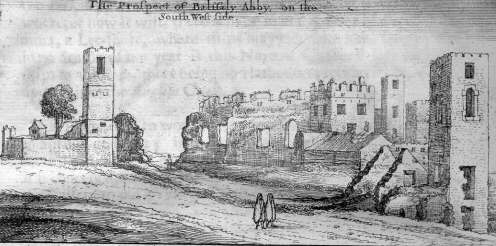 A drawing of Rushen Abbey used to illustrate James Chaloner's A Short Treatise of the Isle of Man. The inscription on the top reads something like 'The Prospect of Ballasalla Abbey [near where the Abbey is located] on the South West side'. For more information, see the original source